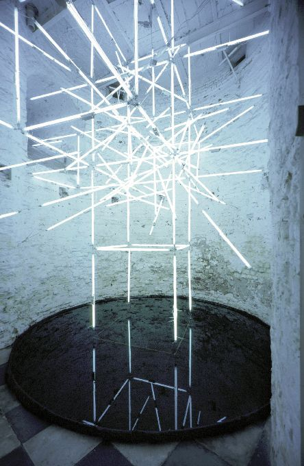 Light art Installation, Gallery Inge Baecker, 2000, Roman Tower, Cologne, Germany